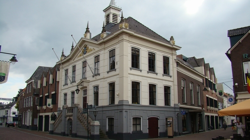 Cityhall Groenlo